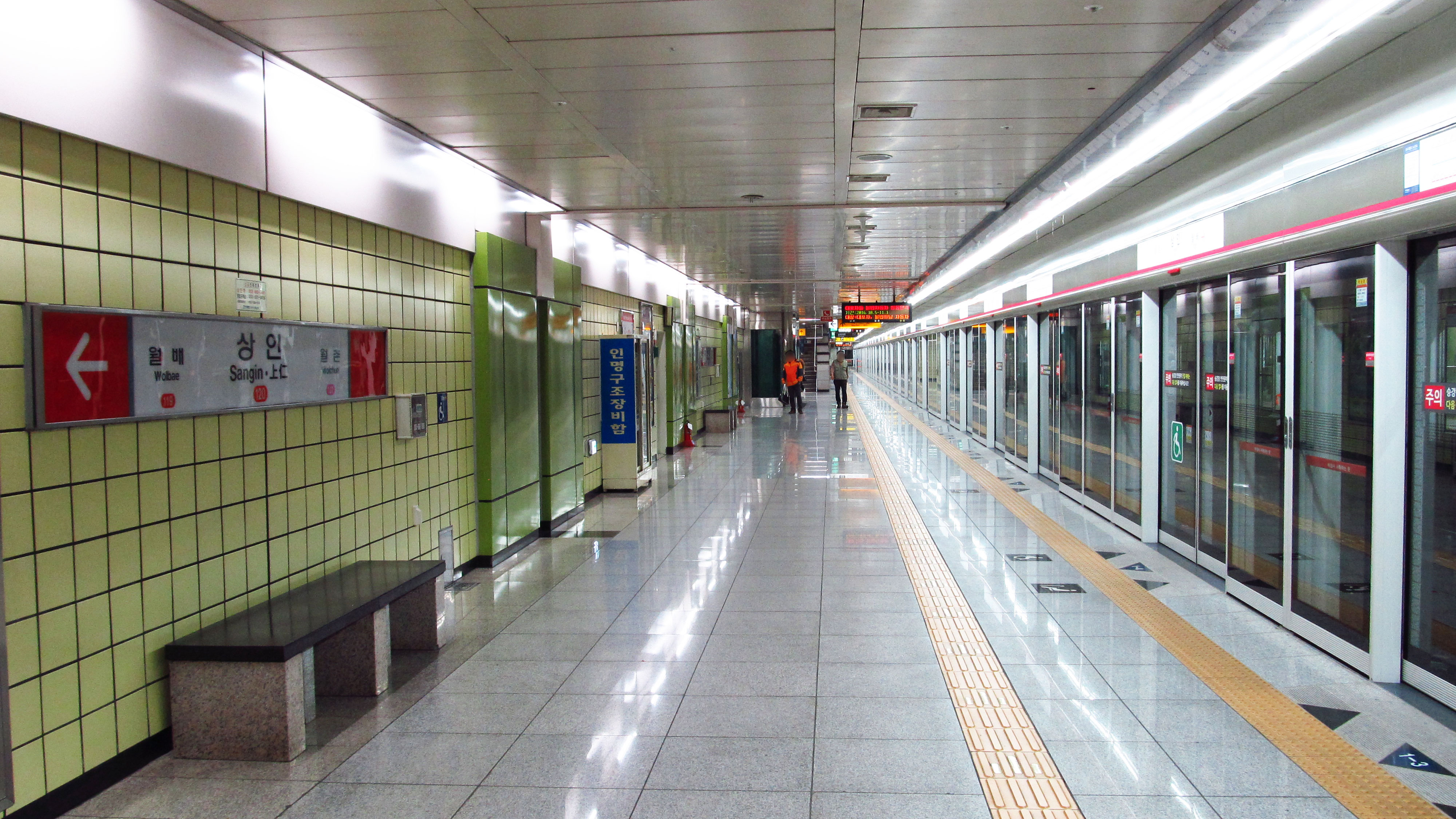 The platform of Sangin Station on the Daegu Metro Line 1, for Wolbae, Seolhwa-Myeonggok